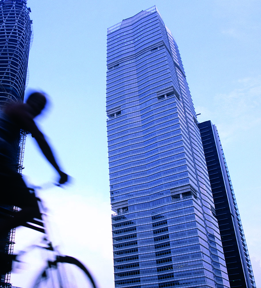 R&F Centre